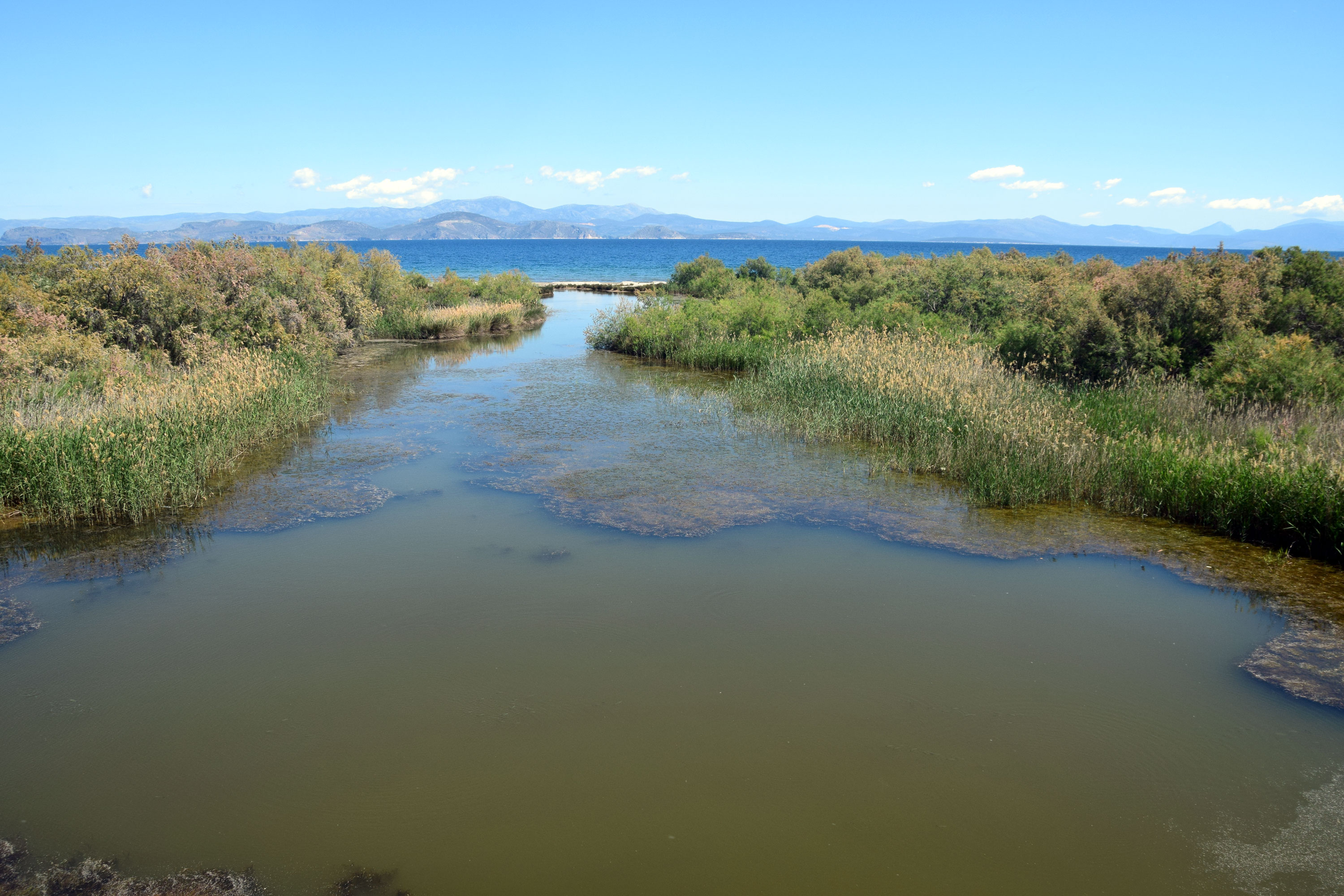 River Tanos estuaries near Paralio Astros, Arcadia, Greece.